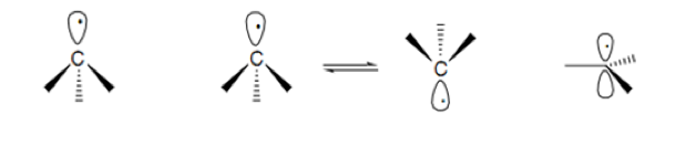 gdfsgdfs